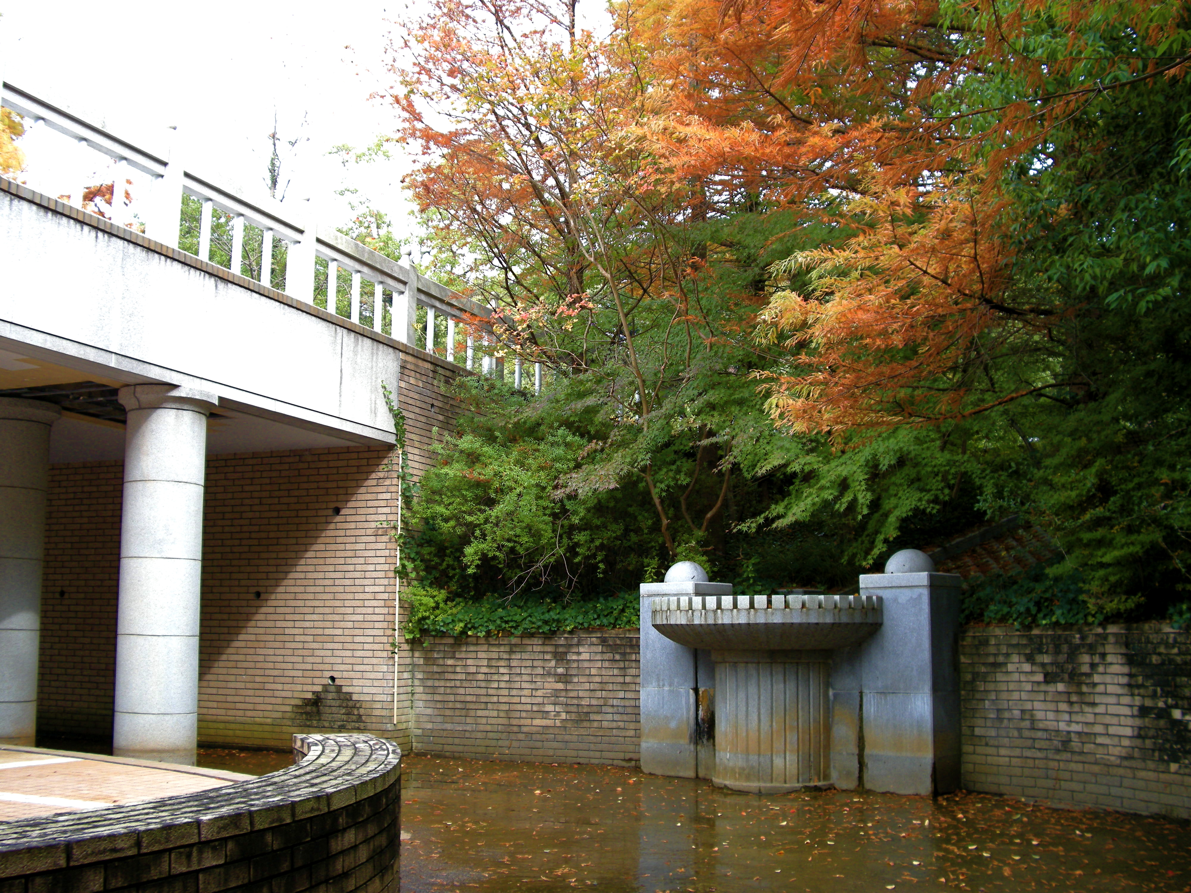 Pond and Tiny Stream at Saionji Memorial Hall Garden (Kinugasa Campus, Ritsumeikan University, Kyoto, Japan)